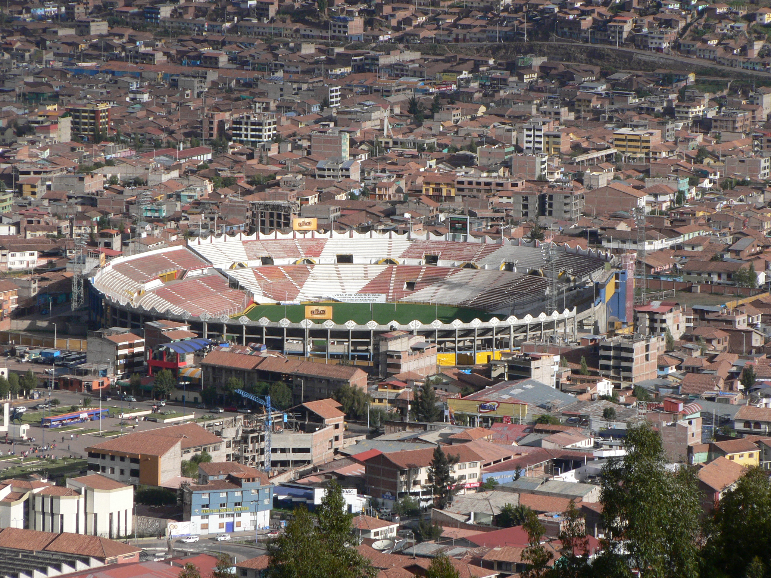 Aerial View of Inca Garcilaso Stadium in Cusco, Peru.